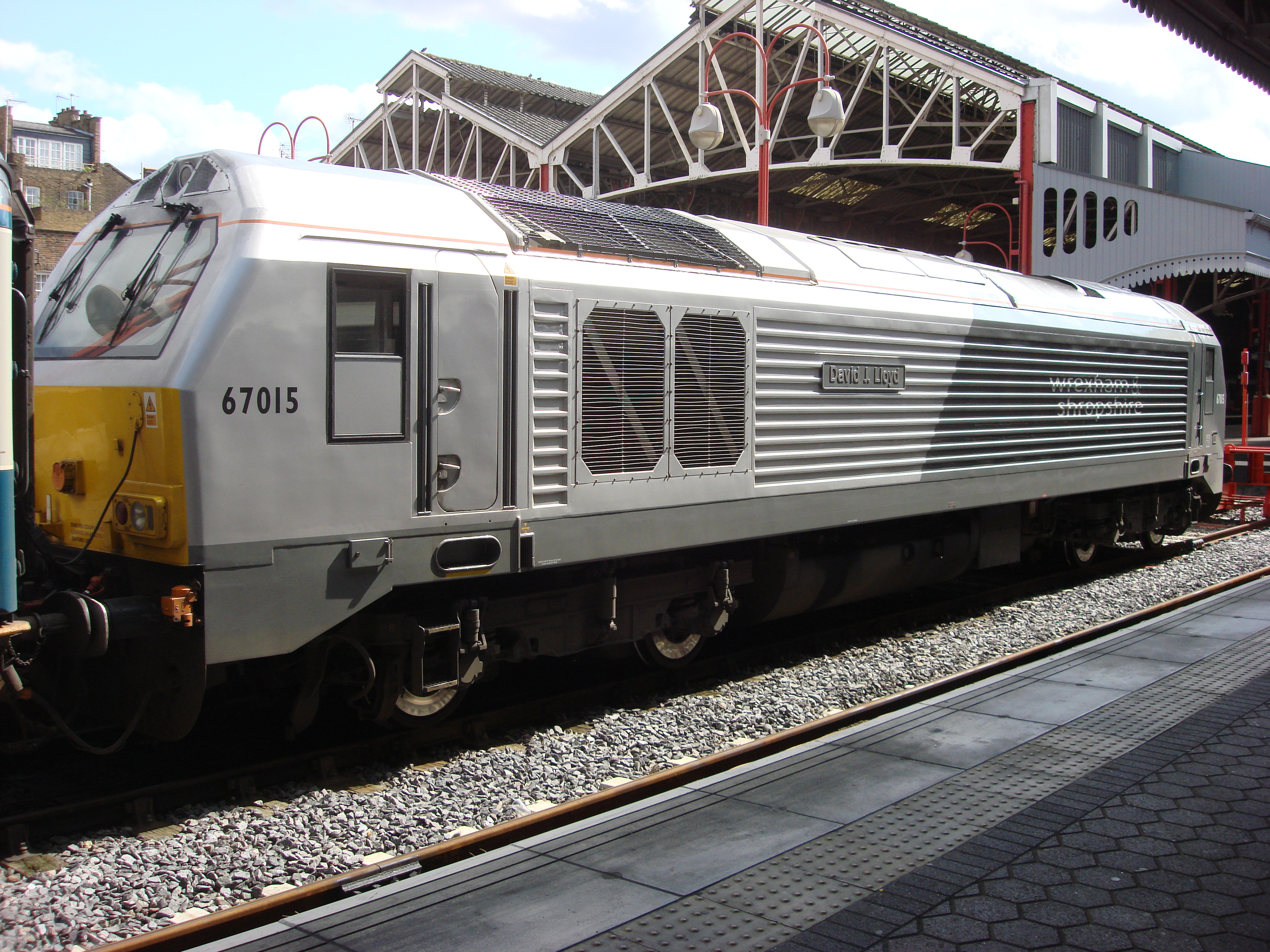 67015 at Marylebone station